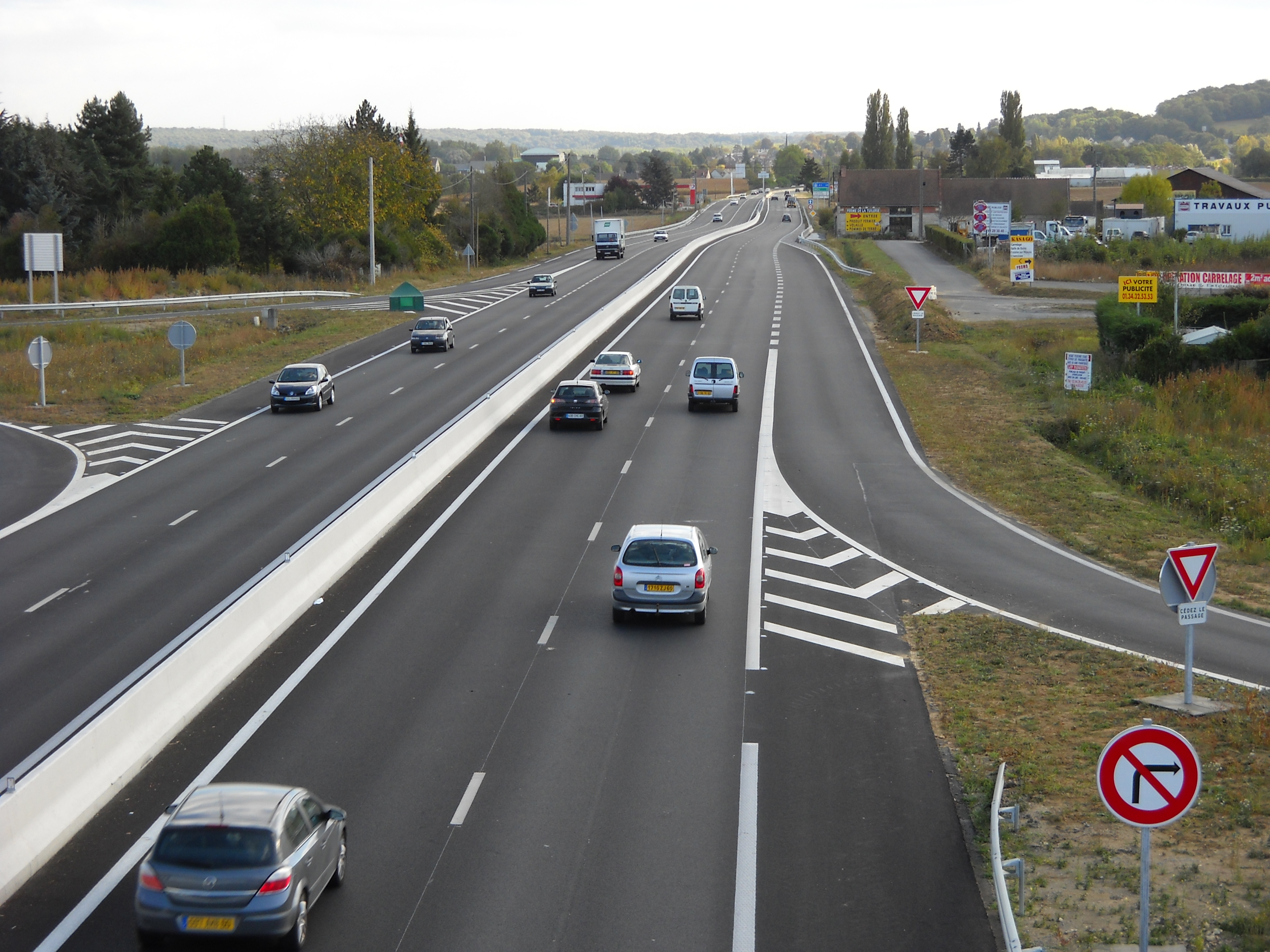 The D1016 (former RN16) highway south of Breuil-le-Vert, Oise, France.